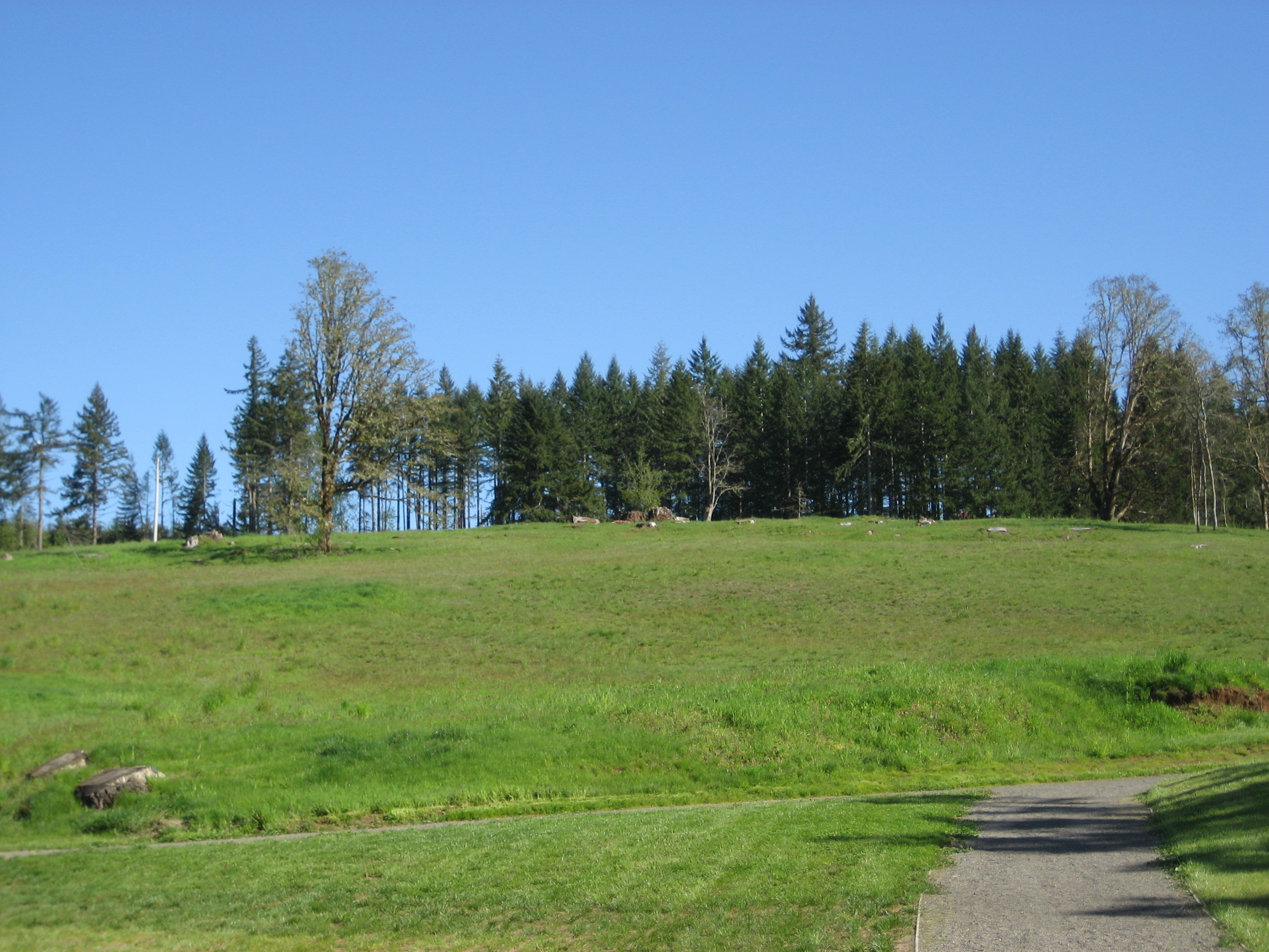 The Fort Yamhill site in Polk County, Oregon, United States, is listed on the US National Register of Historic Places (NRHP), and is an Oregon state park. NRHP reference number 71000681